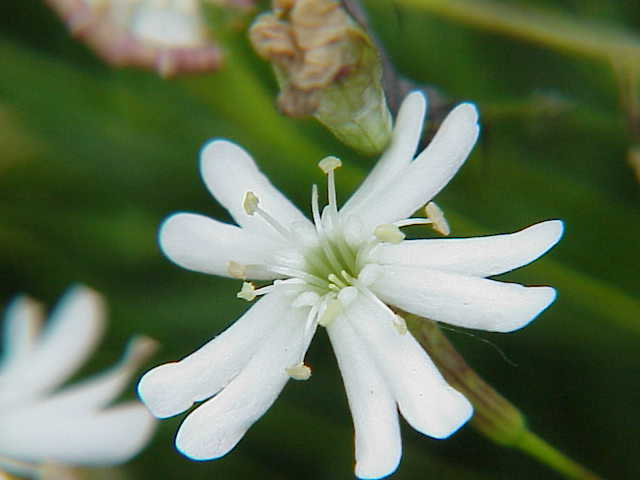 Species: Silene saxifraga Family: Caryophyllaceae Image No. 1